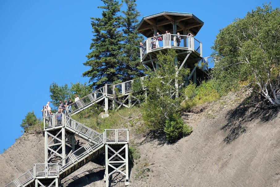 View of the belvedere at the top of the stairs along the rock face on the east side, Montmorency Falls Park, September 2018